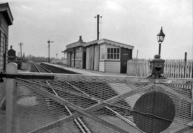 Bason Bridge Station, Near to Bason Bridge, Somerset, Great Britain. View westward, towards Highbridge and Burnham-on-Sea on former Somerset & Dorset Joint branch from Evercreech Junction, which -- together with the S&DJ main line -- on 7/3/66. (The dominating crossing-gates would rarely be closed across the road by then).